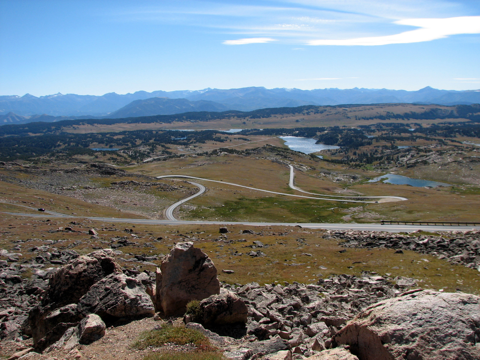 Beartooth Highway showing switchbacks